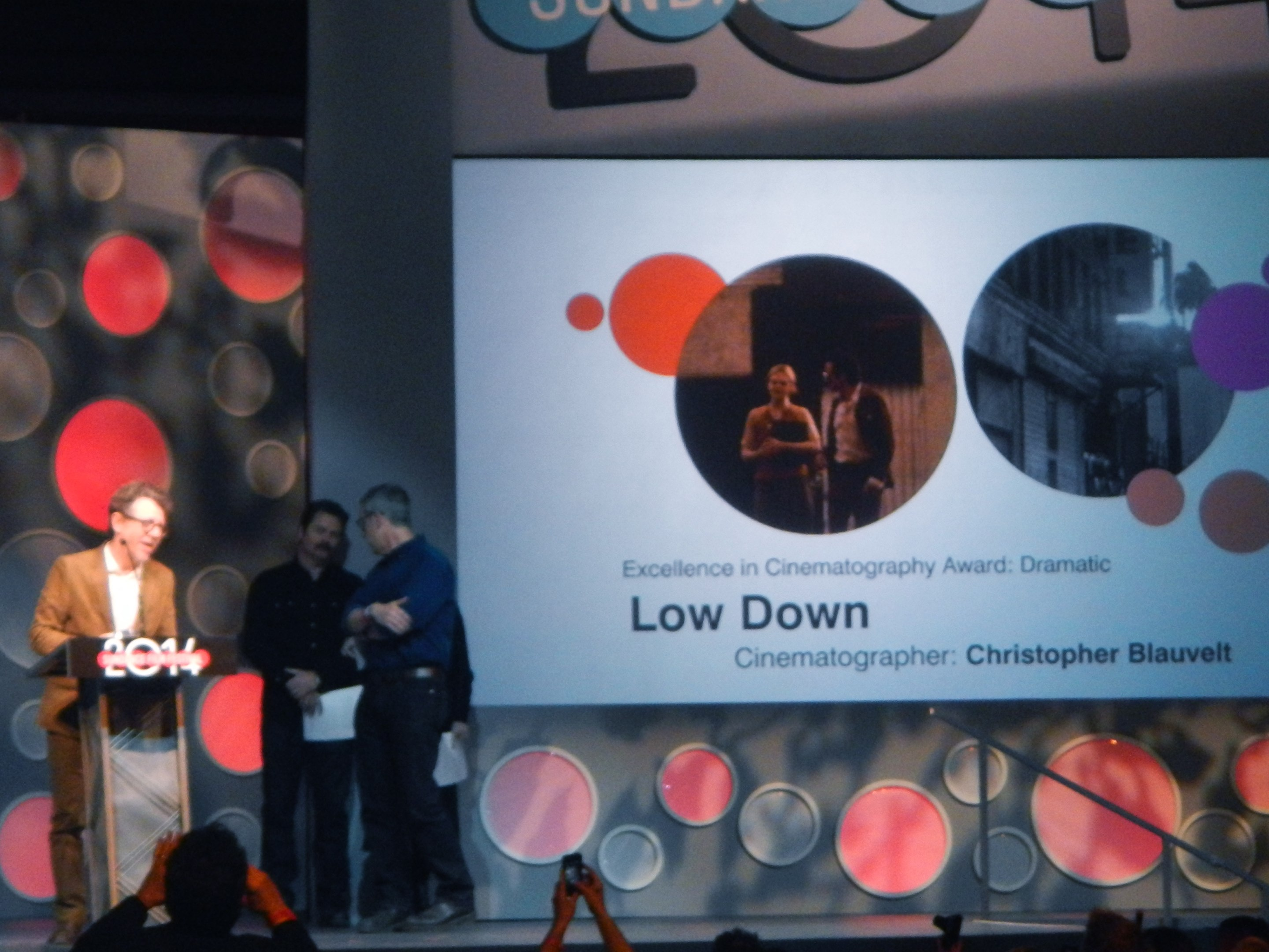 Director Jeff Preiss accepting the US Dramatic Award for Cinematography on behalf of Christopher Blauvelt at the Sundance 2014 Awards Ceremony